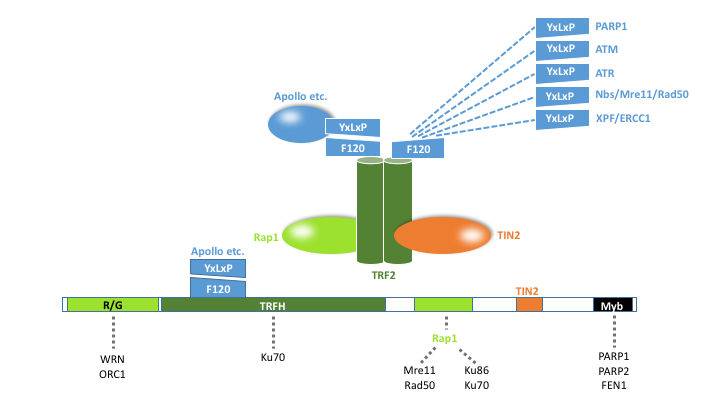 Describes TERF2 functionality with client proteins and recruitment specificity